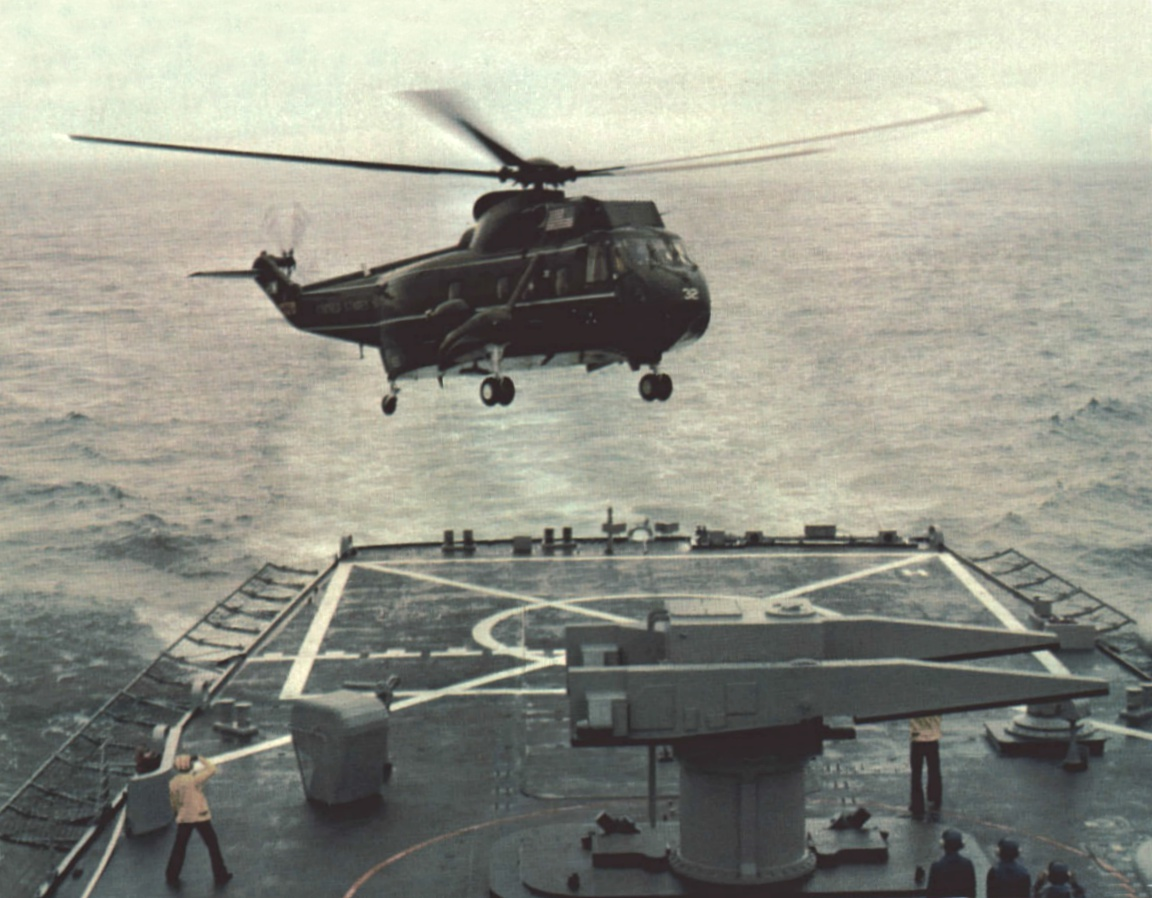 A U.S. Navy Sikorsky SH-3G Sea King helicopter assigned to the Commander, Naval Surface Force Atlantic prepares to land aboard the guided missile cruiser USS Mississippi (CGN-40) during sea trials in the Atlantic Ocean in 1978. Mississippi was commissioned on 5 August 1978.